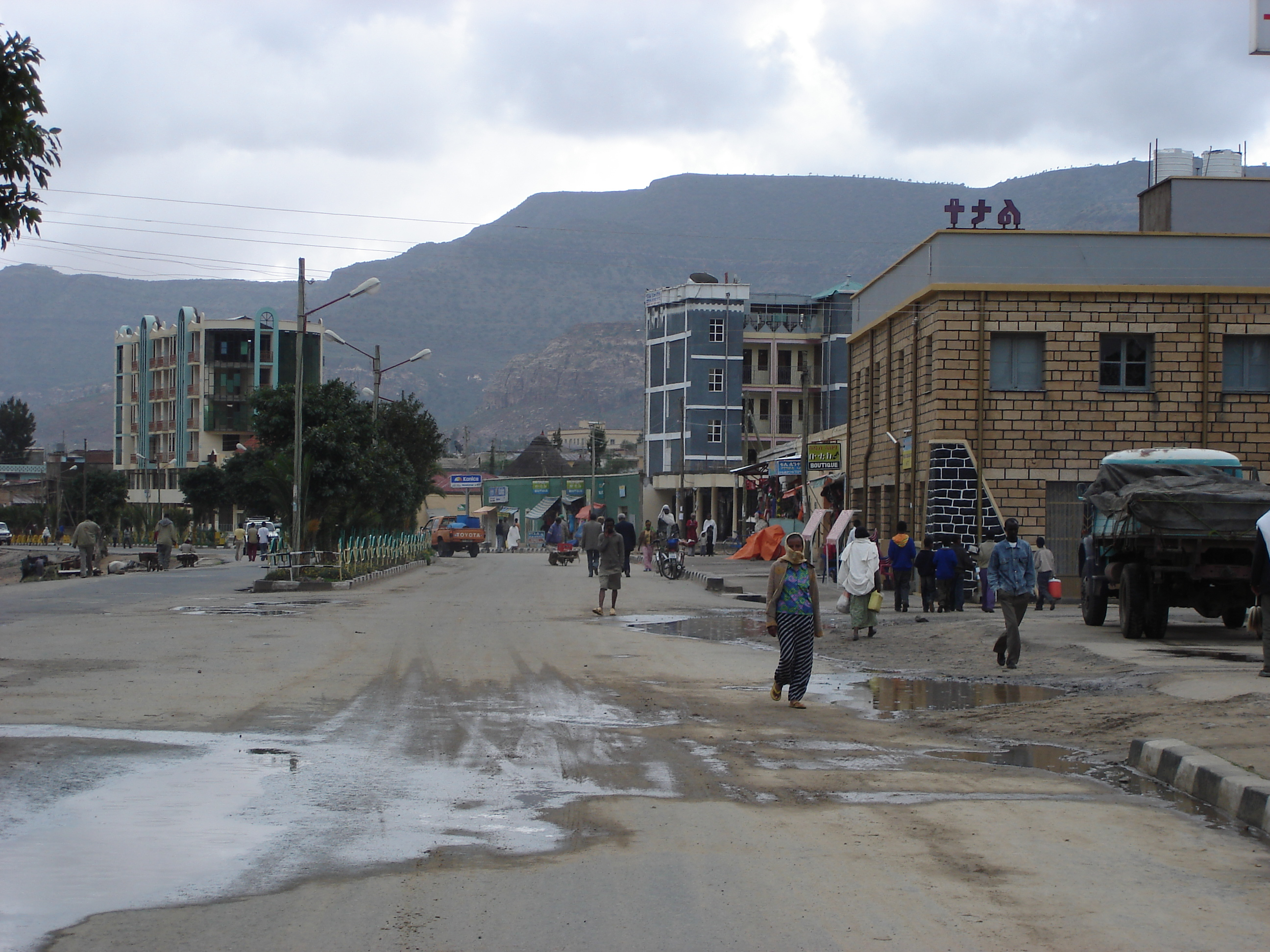 Street in Adigrat, Ethiopia